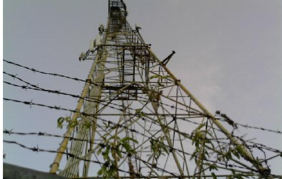 The floodlights of Boothferry Park, Boothferry Road, Hull, East Riding of Yorkshire, England.